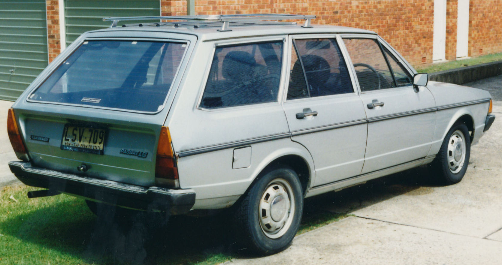 This image is a scan of a 35mm print taken in 1993